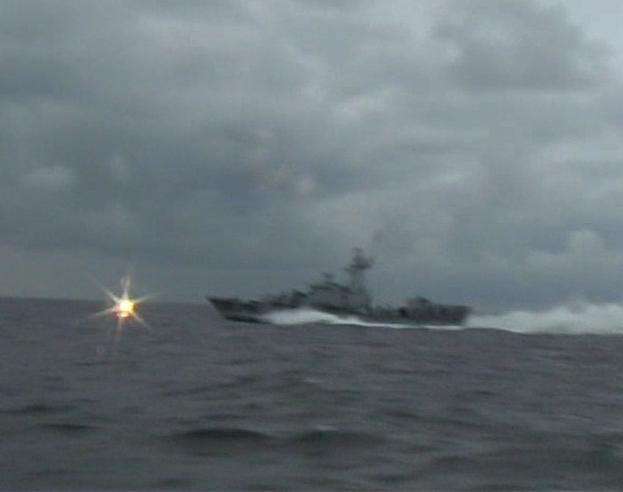 One of the corvettes in the Stockholm class of the Swedish navy.